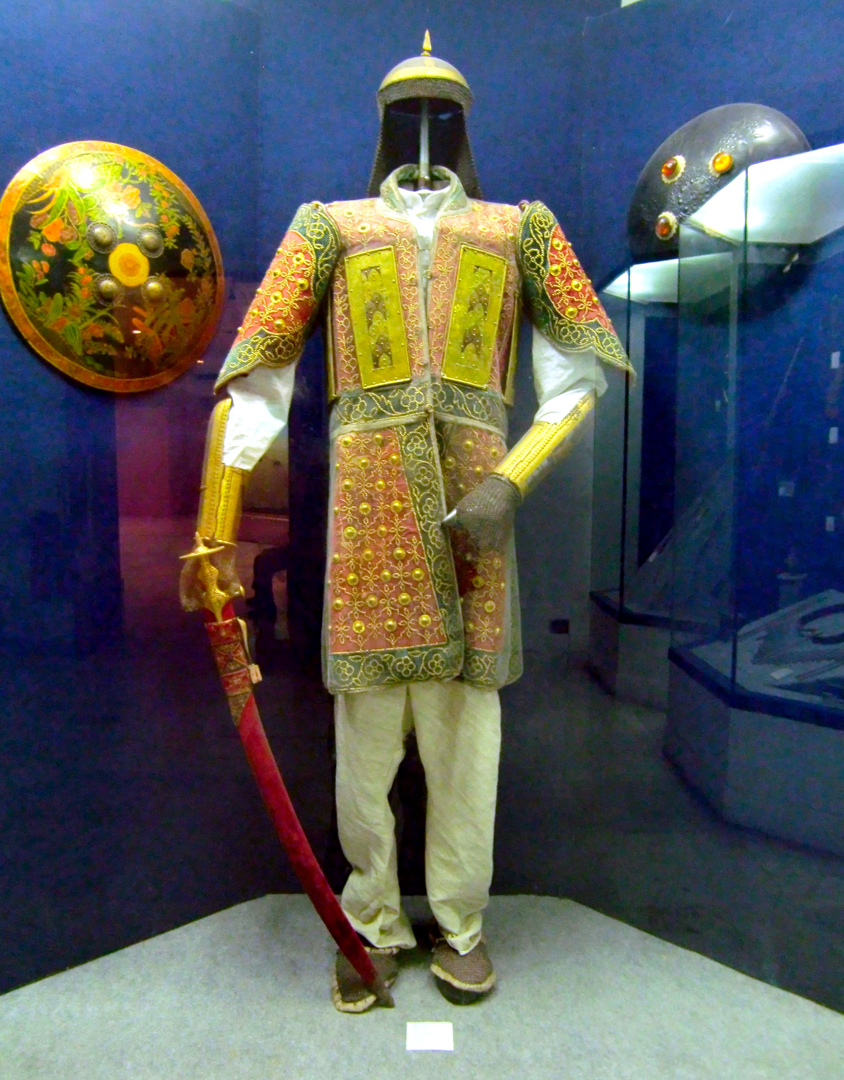 Chilta hazar masha (Coat of a thousand nails), kulah khud (helmet), bazu band (arm guards), talwar (sword) 18th century Rajasthan. National Museum of India, New Delhi.